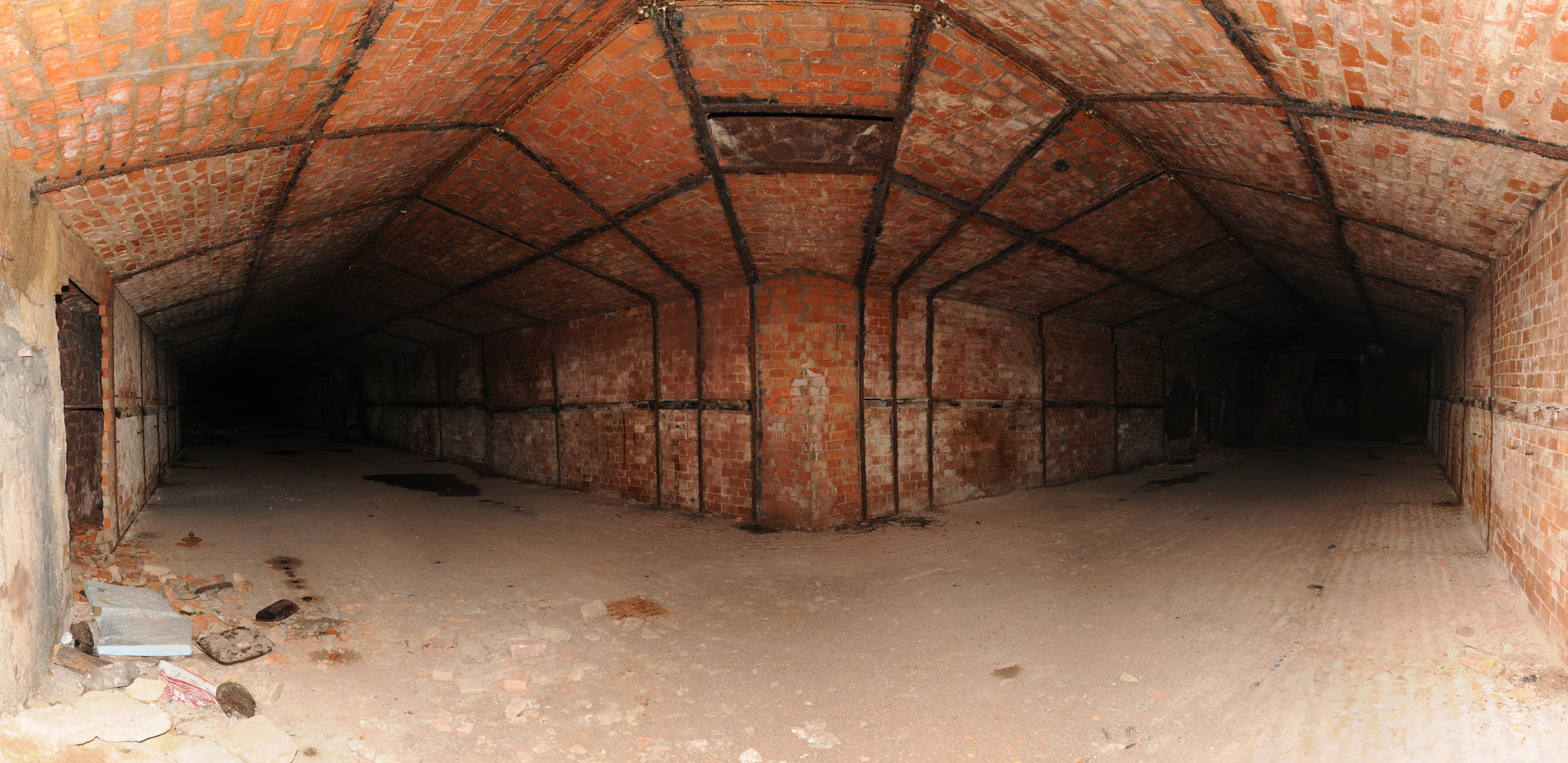 Abri-caverne, near the Roppe fortifications.